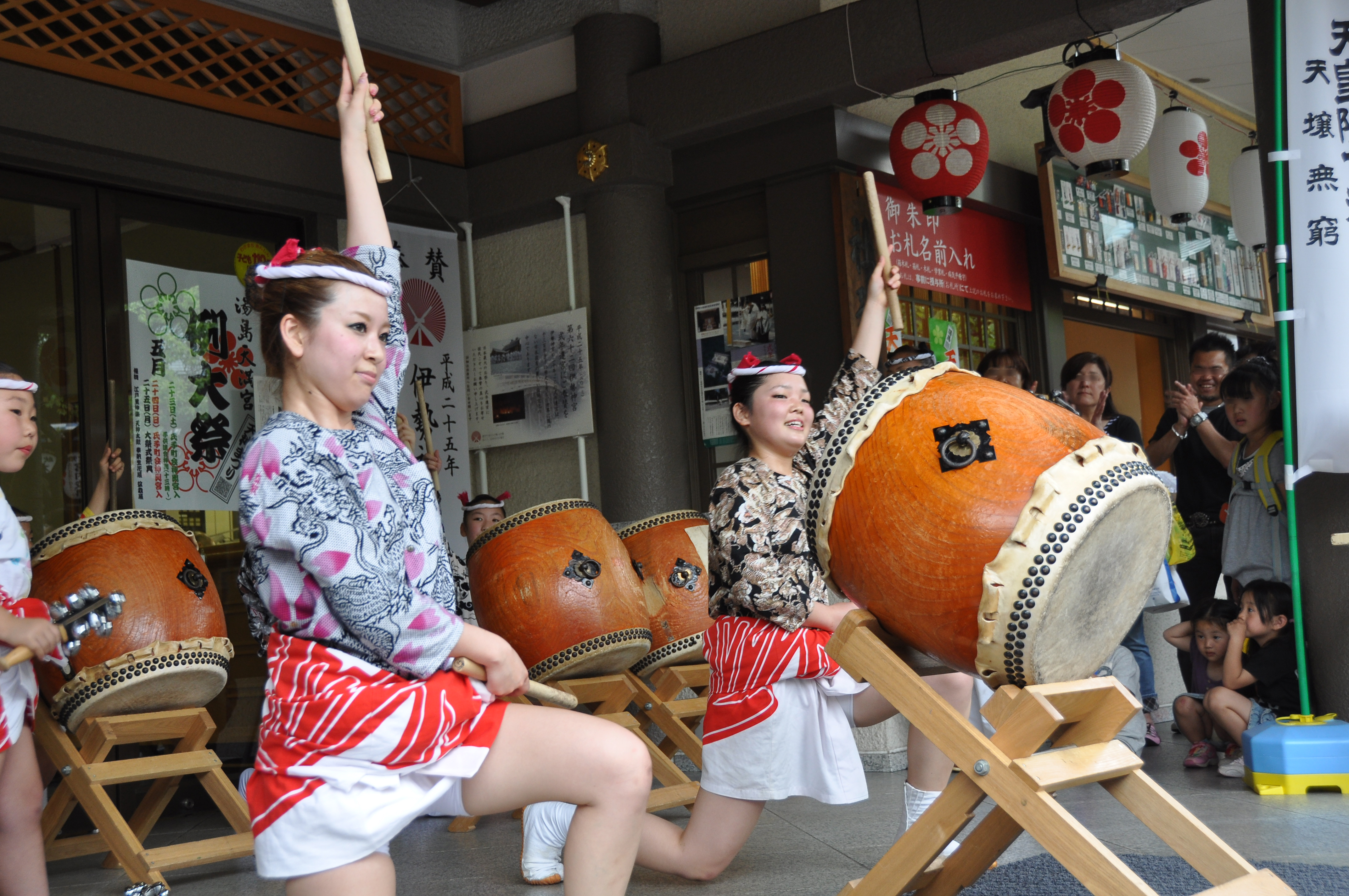 Reitaisai (Annual Festival) of Yushima-temmangū.